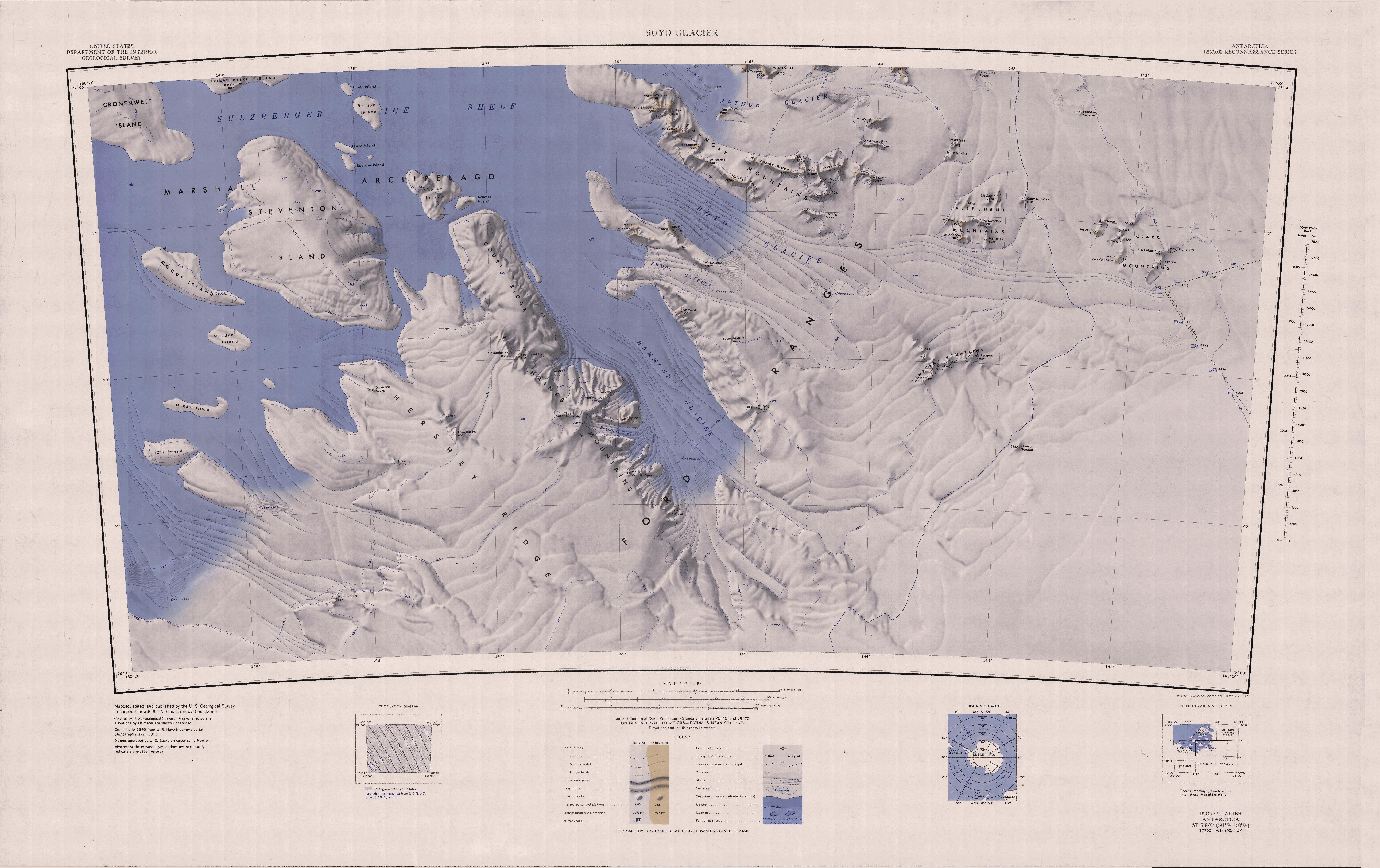 Map of Antarctica by the United States Antarctic Resource Center of the US Geological Society.